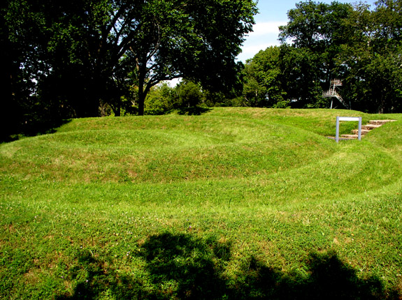 A photo of the Serpent Mound, specifically the spiral at the end of the tail. Photo taken by Herb Roe.